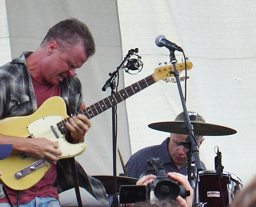 Bill and Dan Hobson, guitarist and drummer for Killdozer, on stage in Chicago.